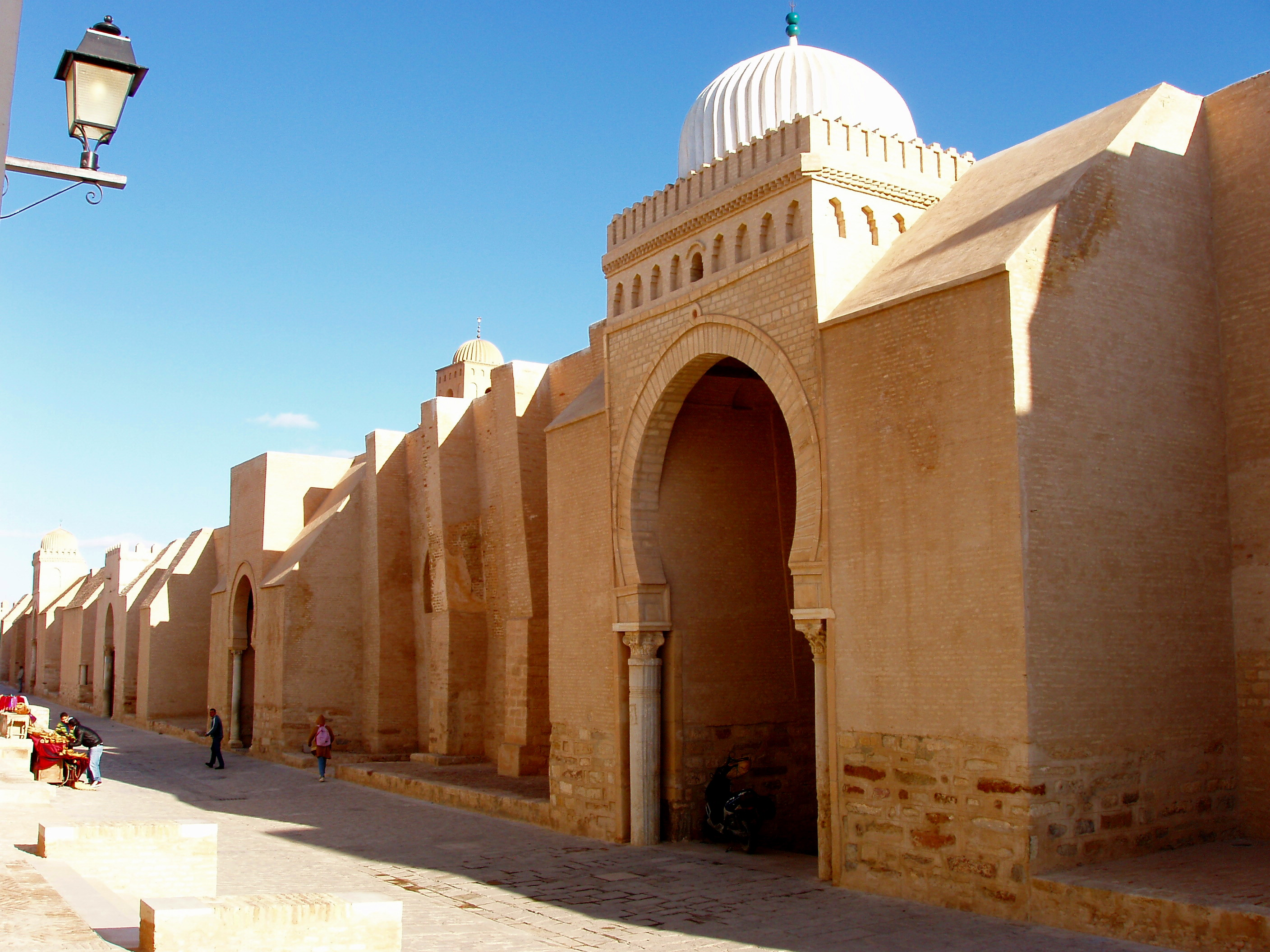 Great Mosque of Kairouan western wall